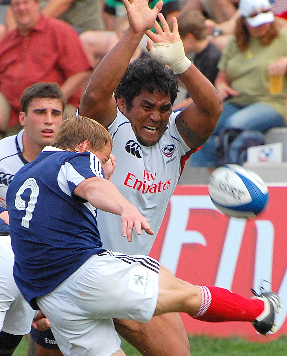 Matekitonga Moeakiola of the USA Eagles attempting to charge down a kick against Russia during the 2010 Churchill Cup.